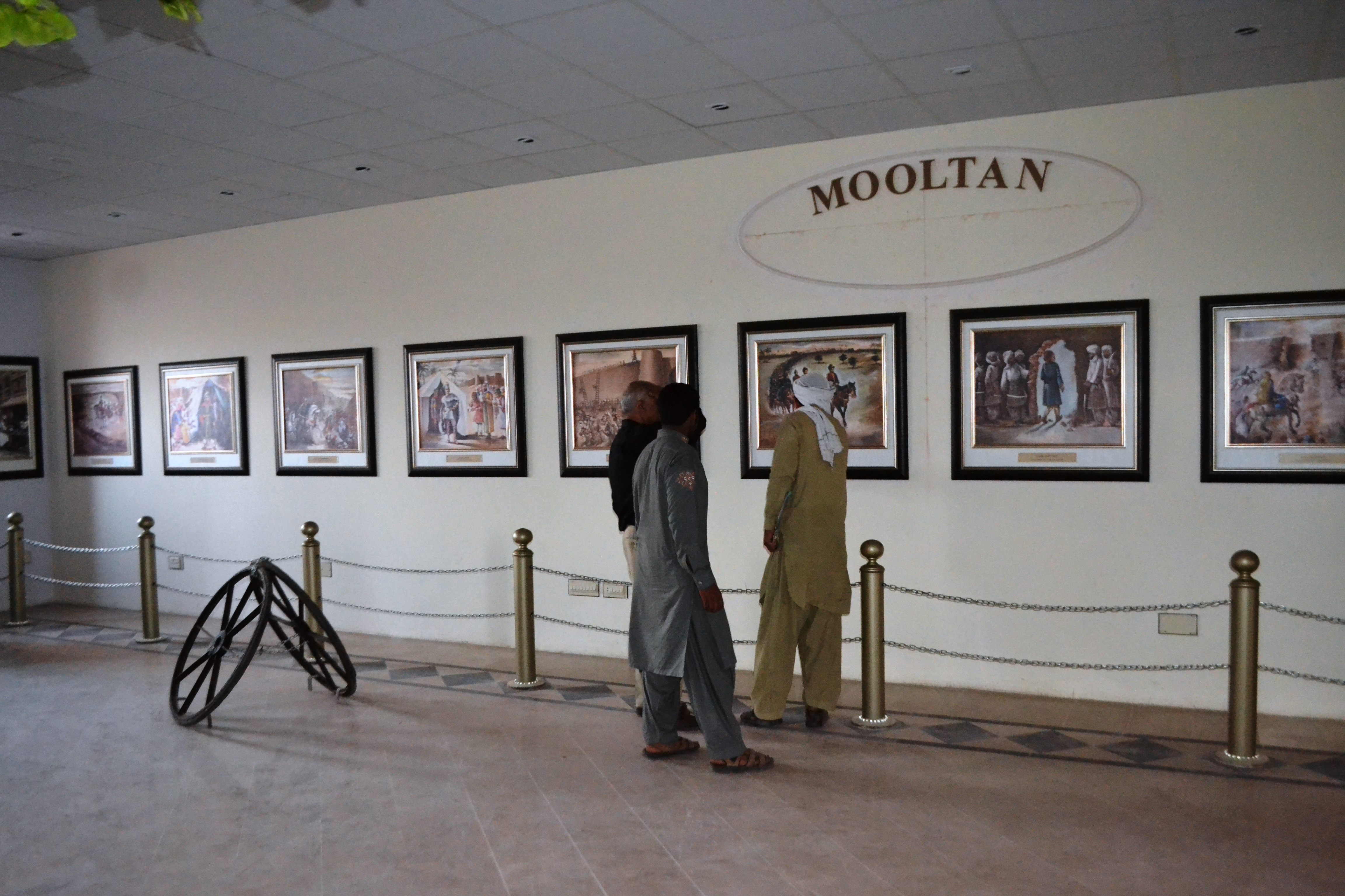 Newly Build Art Gallery at Damdama Multan